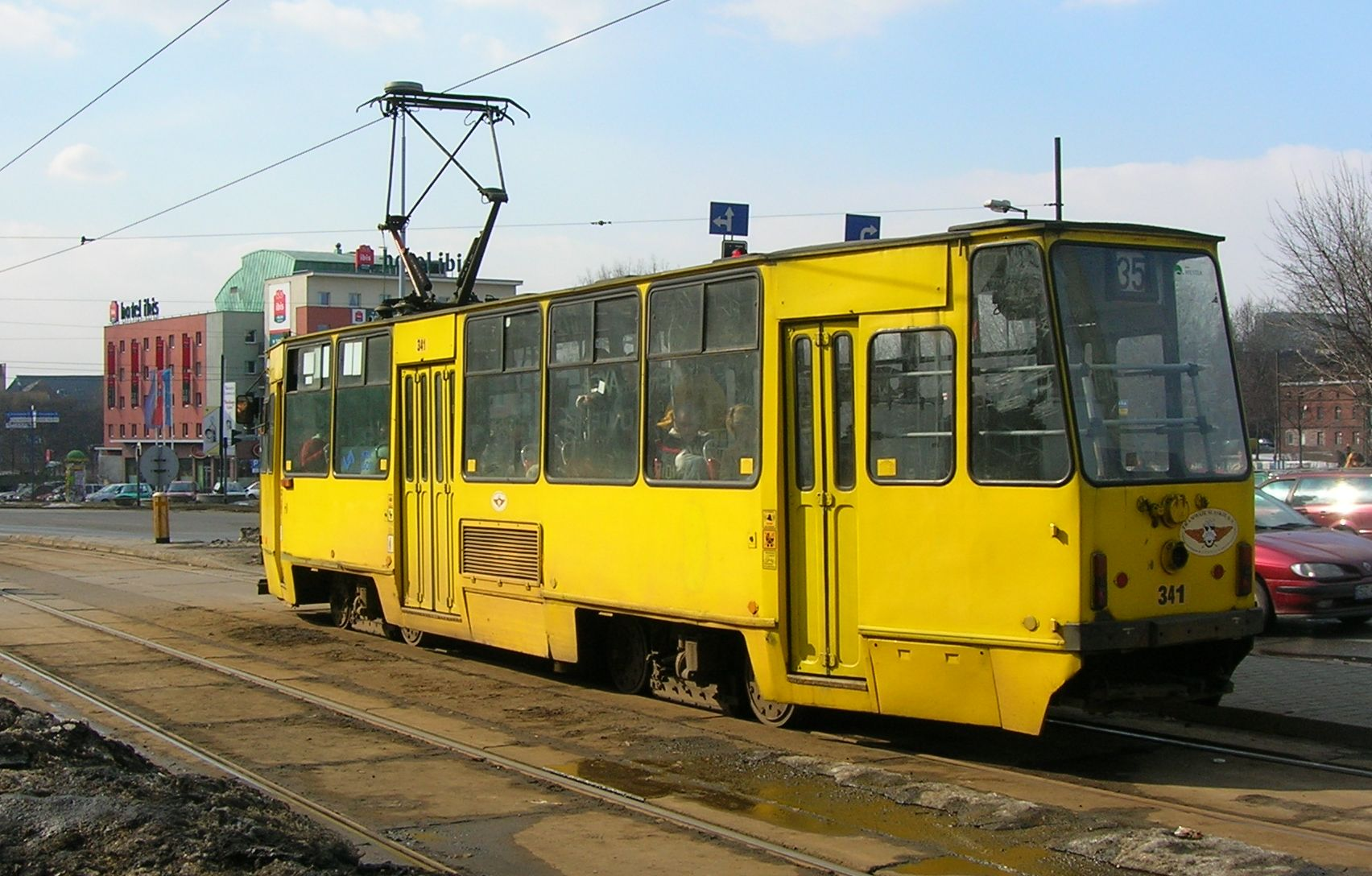 Konstal 111N in Zabrze, Poland. This is my photo made in March 2006